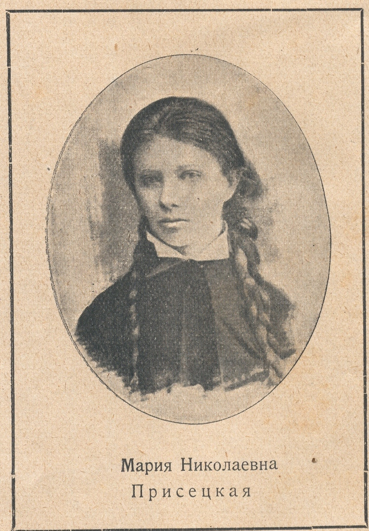 Maria Prysiecka